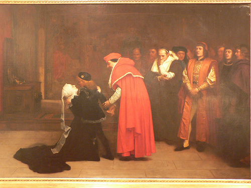 Elizabeth Woodville surrenders her second son by King Edward IV, Richard of Shrewsbury, Duke of York from sanctuary at Westminster Abbey to the Tower.